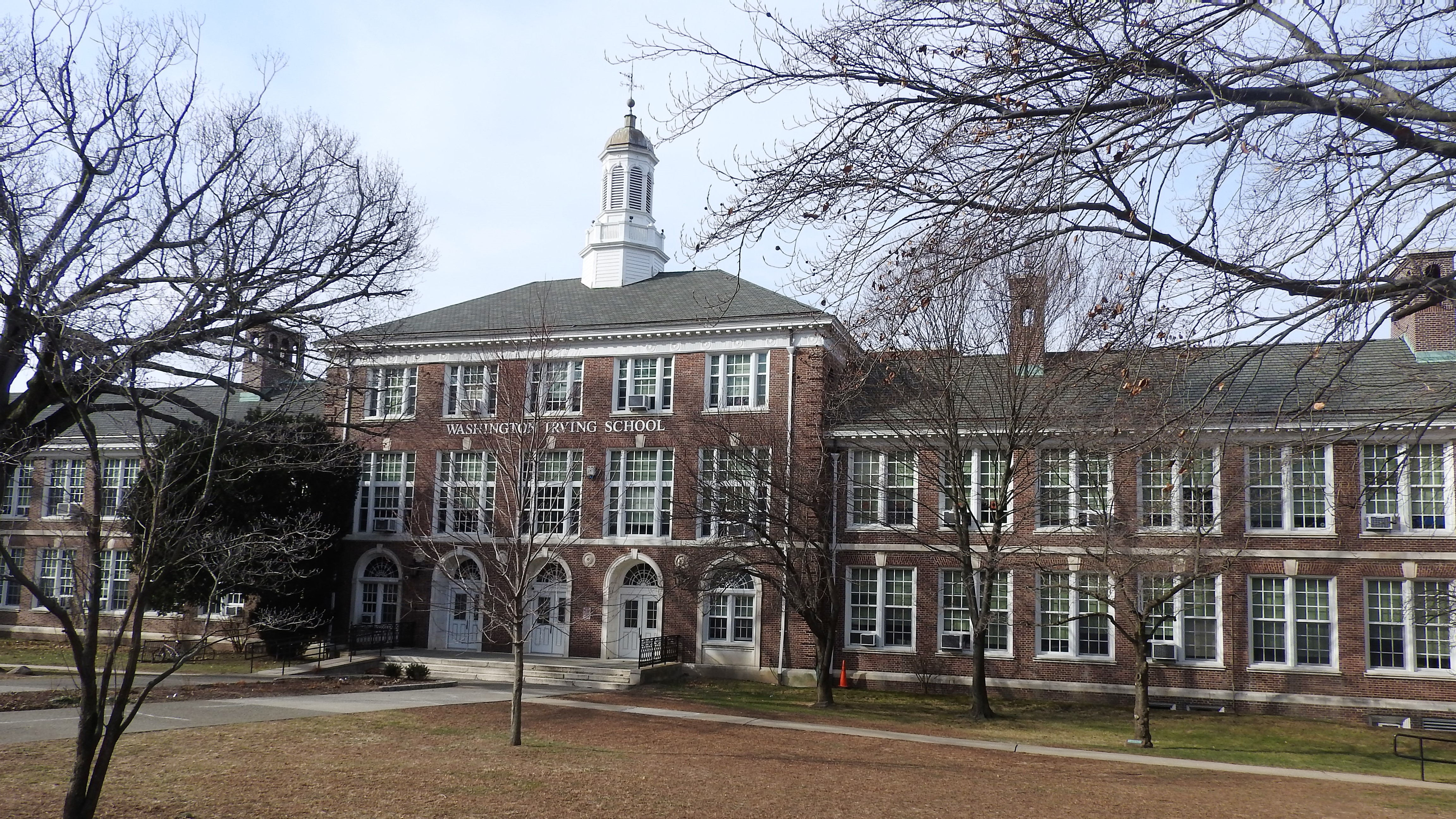 Washington Irving School, Tarrytown, NY on a partly sunny midday.